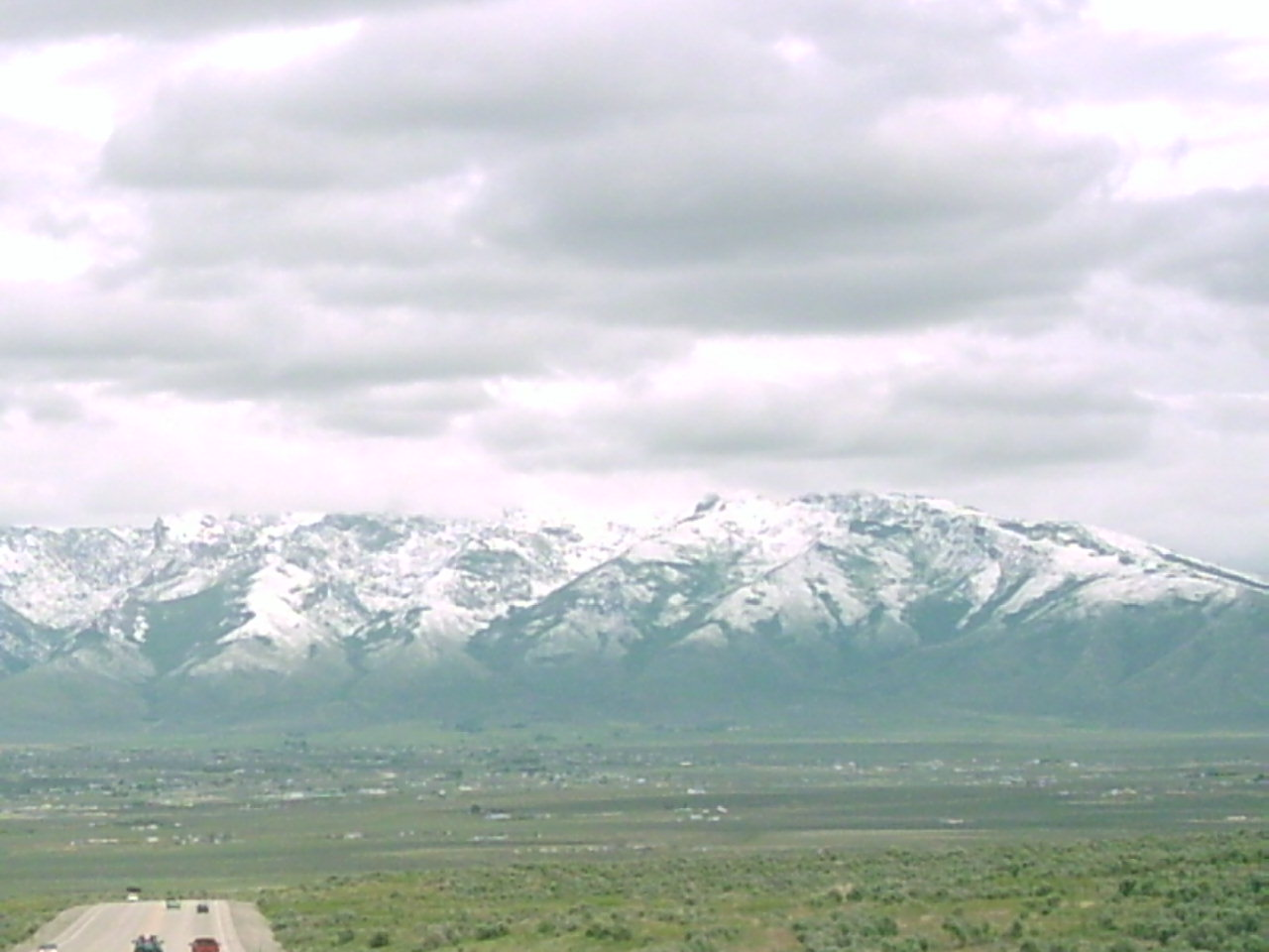 View of Spring Creek, (and Ruby Mountains, east), Nevada, as seen looking southeast from Lamoille Summit on State Route 227.